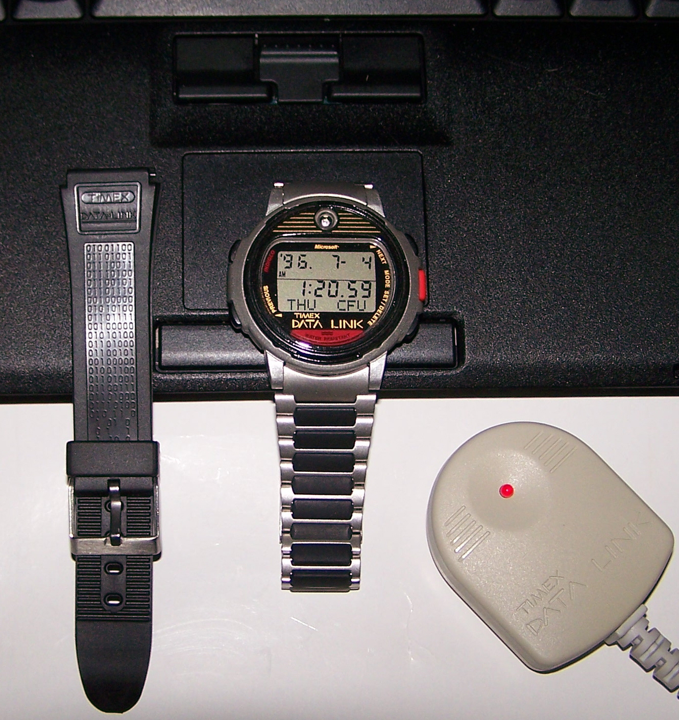 Please see filename